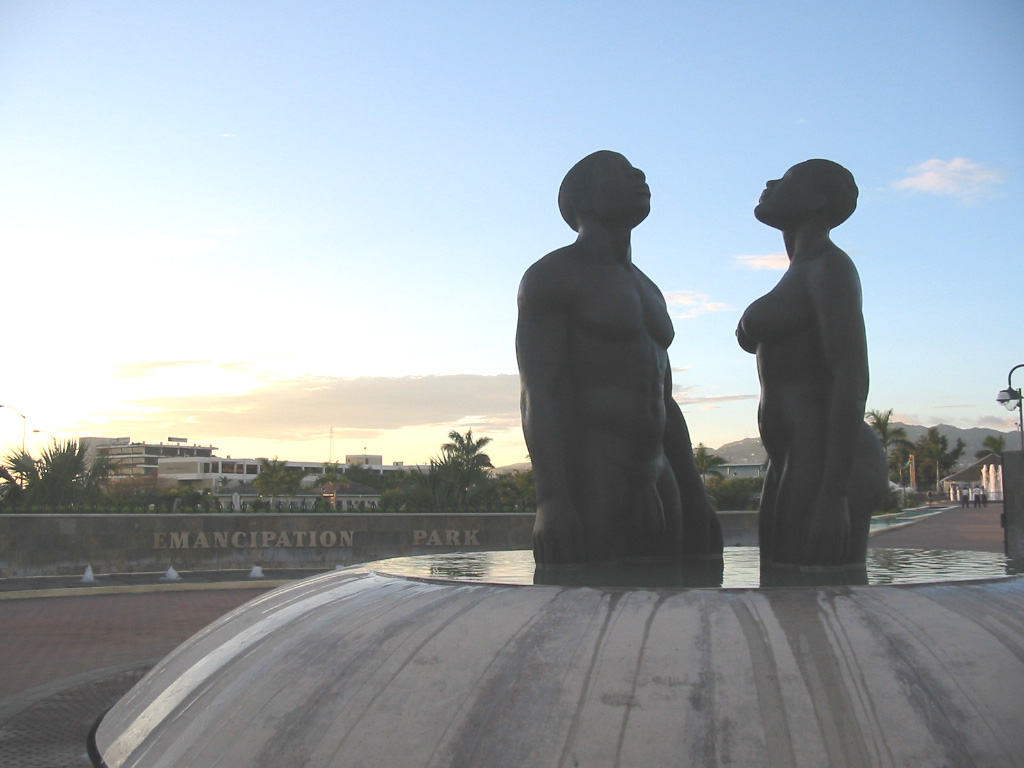 Statues in Emancipation Park, Kingston Author Gwyneth Davidson